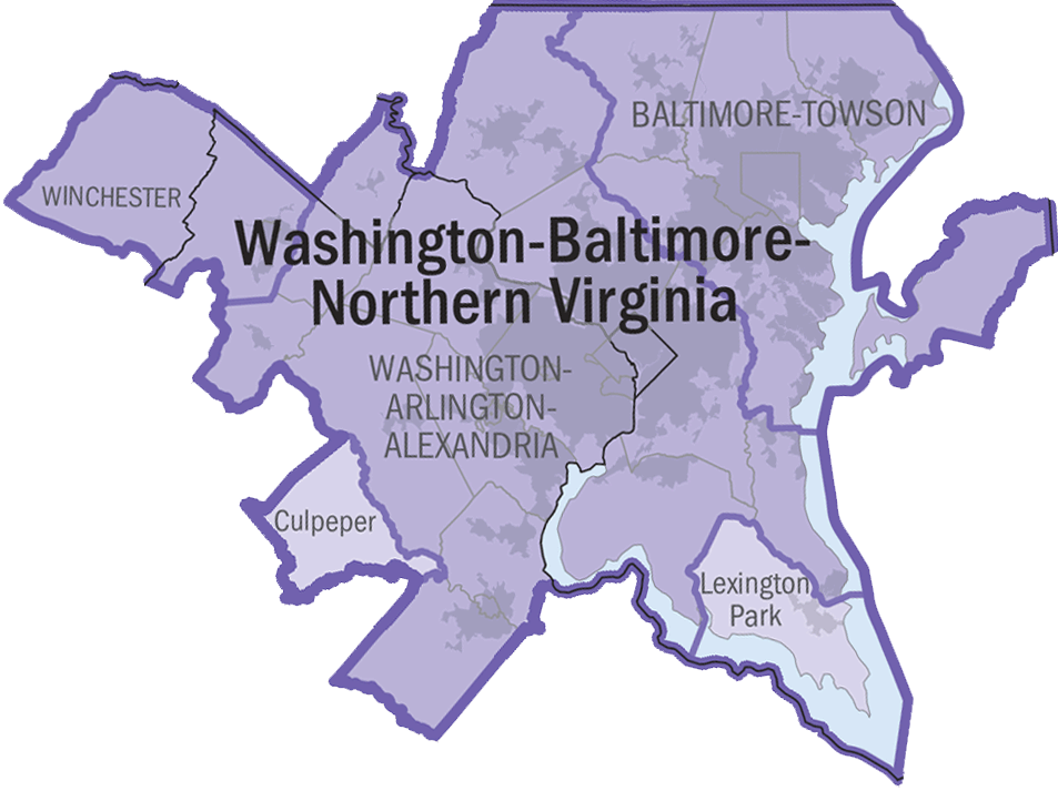 2005 Washington-Baltimore-Northern Virginia Combined Statistical Area.